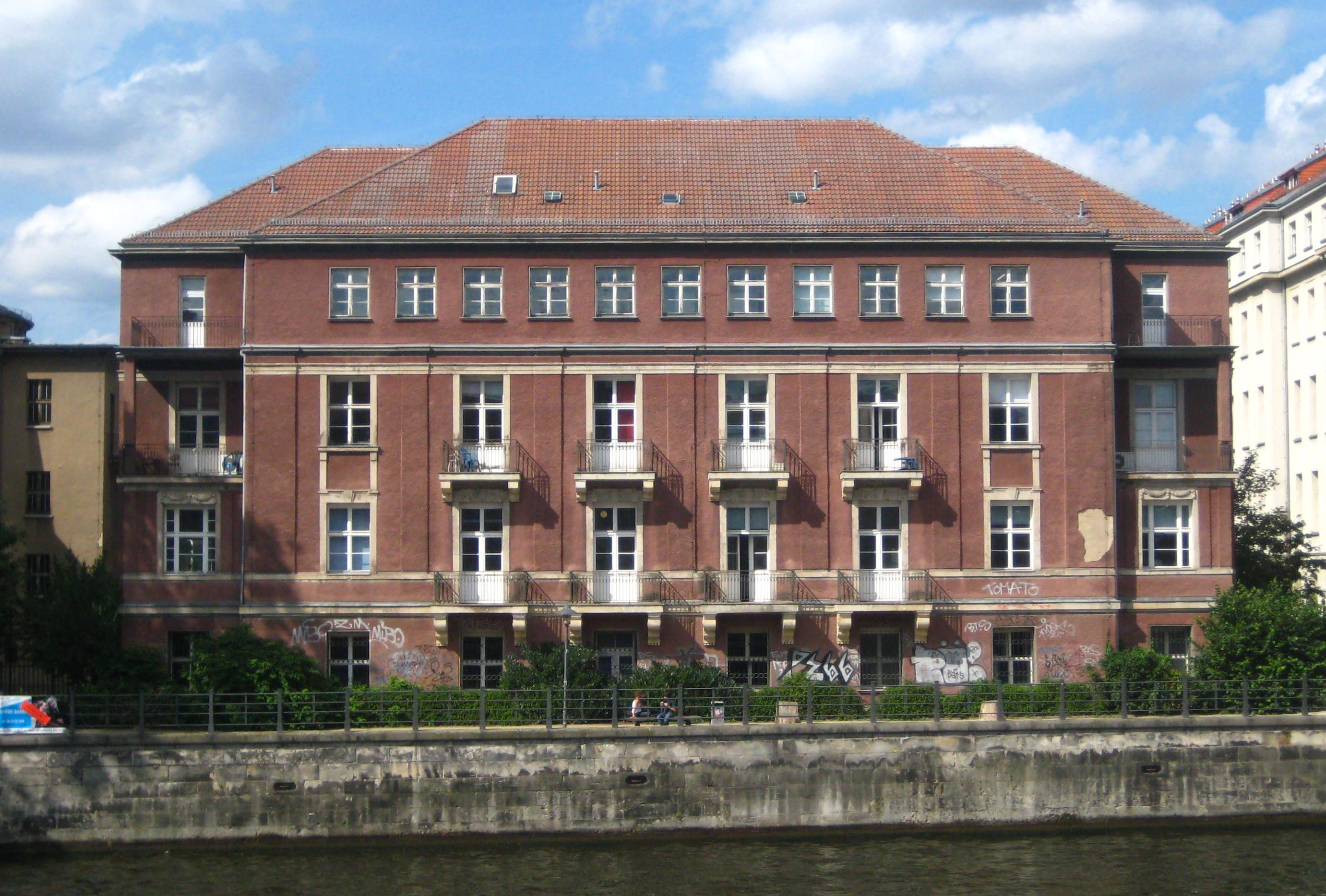 Spree side of a building of the former University Women Hospital at Tucholskystraße 2 in Berlin-Mitte. It belongs to the older structures of the complex, built from 1880 to 1883 to designs by the architects Gropius & Schmieden. The whole complex has been designated a historic landmark.